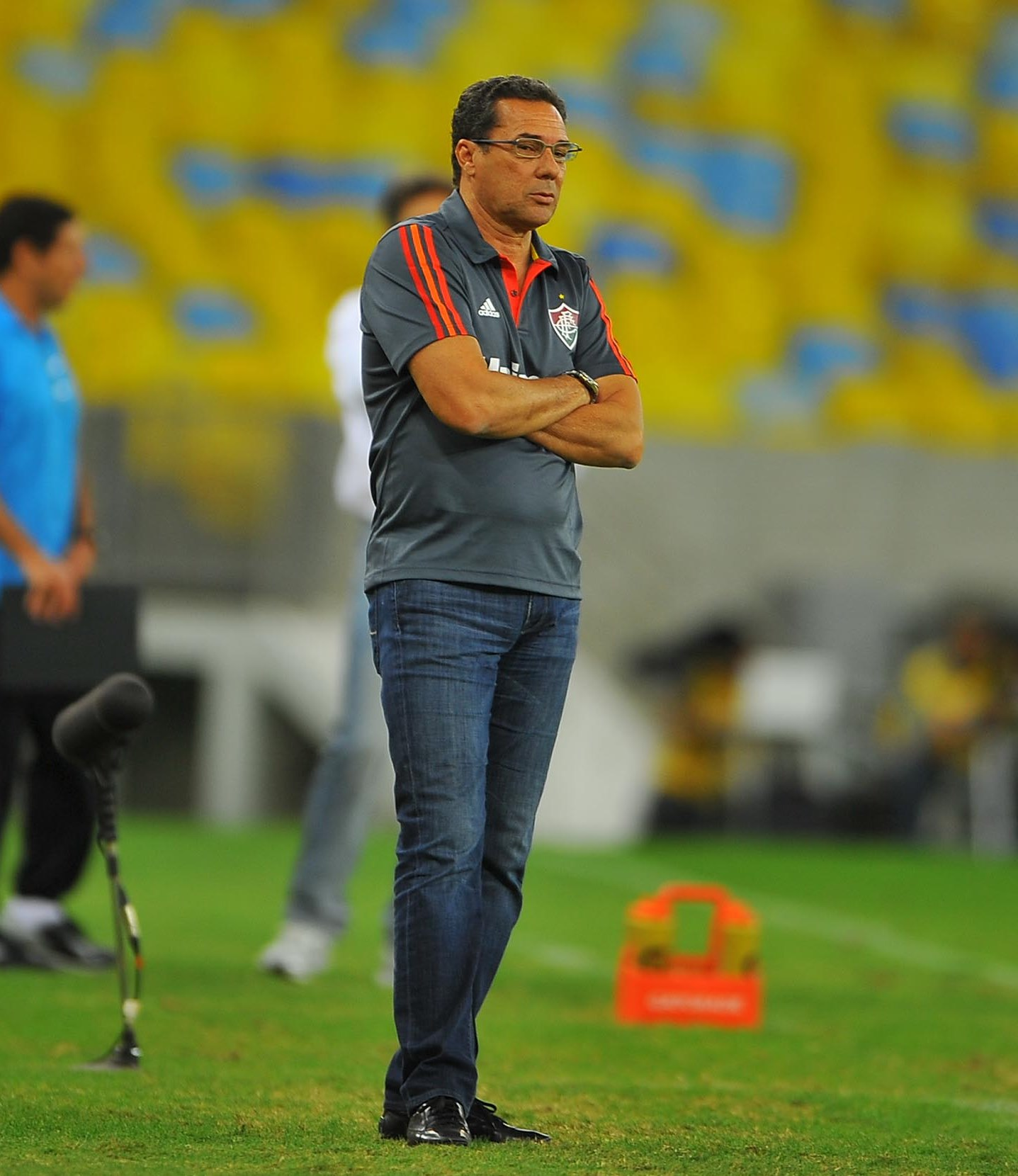 Vanderlei Luxemburgo da Silva (born 10 May 1952, in Nova Iguaçu, Rio de Janeiro state), better known as Vanderlei Luxemburgo and often known as Wanderley Luxemburgo, is a Brazilian football manager and former football player. He holds the distinction of being the most successful manager in the history of Brazil's Série A, with five league titles.